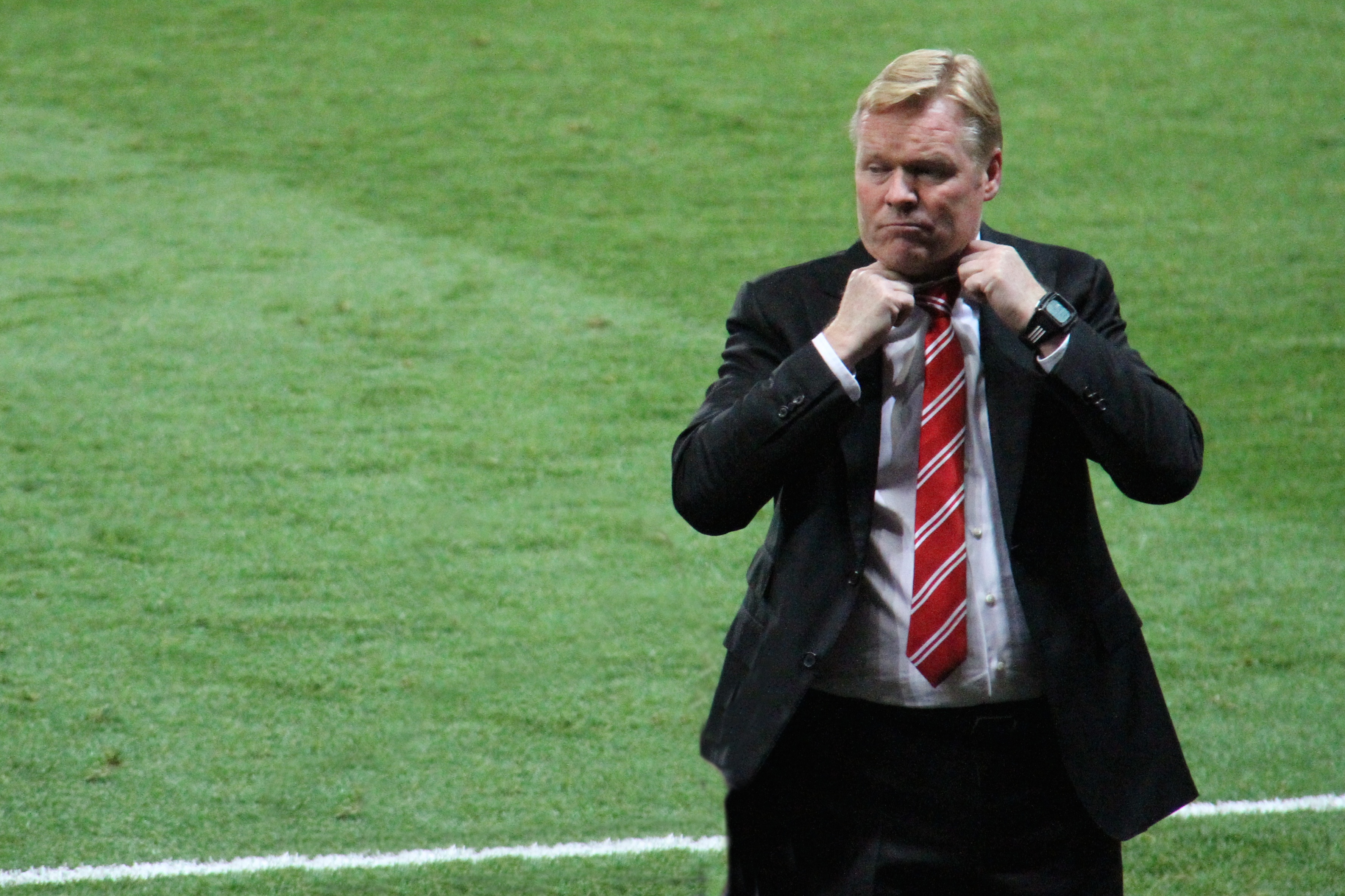 Ronald Koeman, Arsenal v Southampton, 23 September 2014.